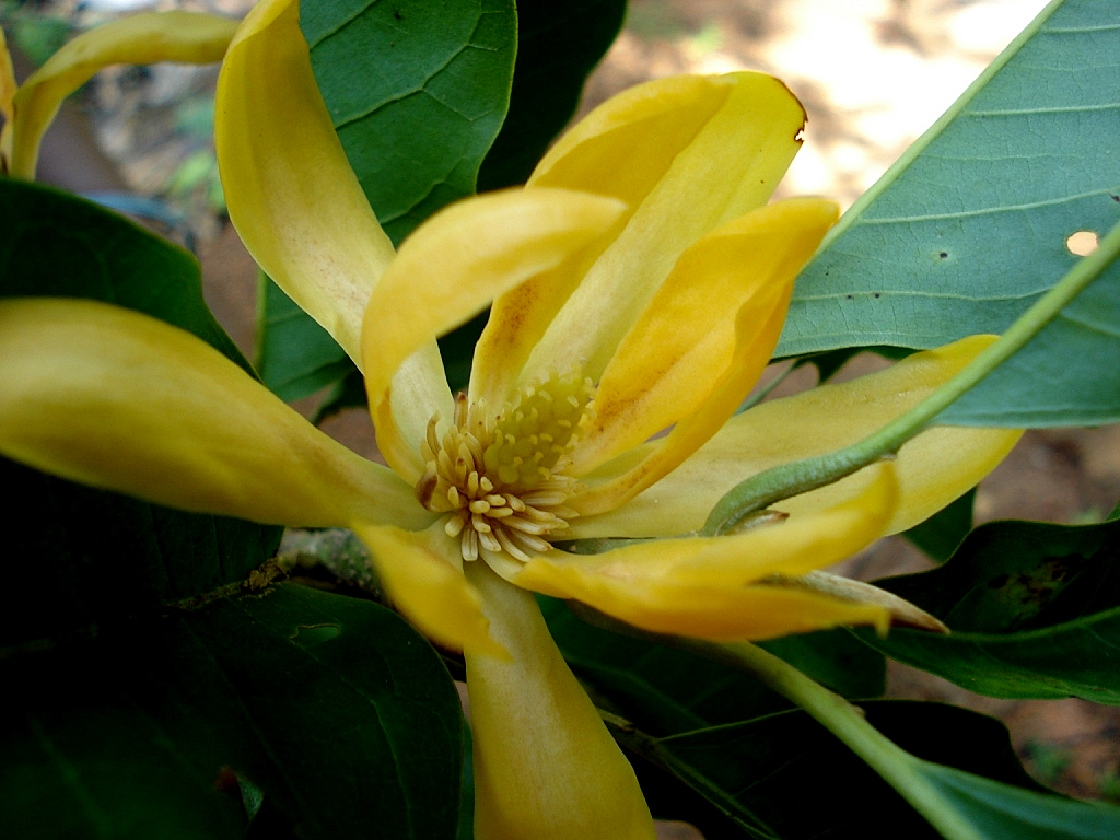 Champaka flower